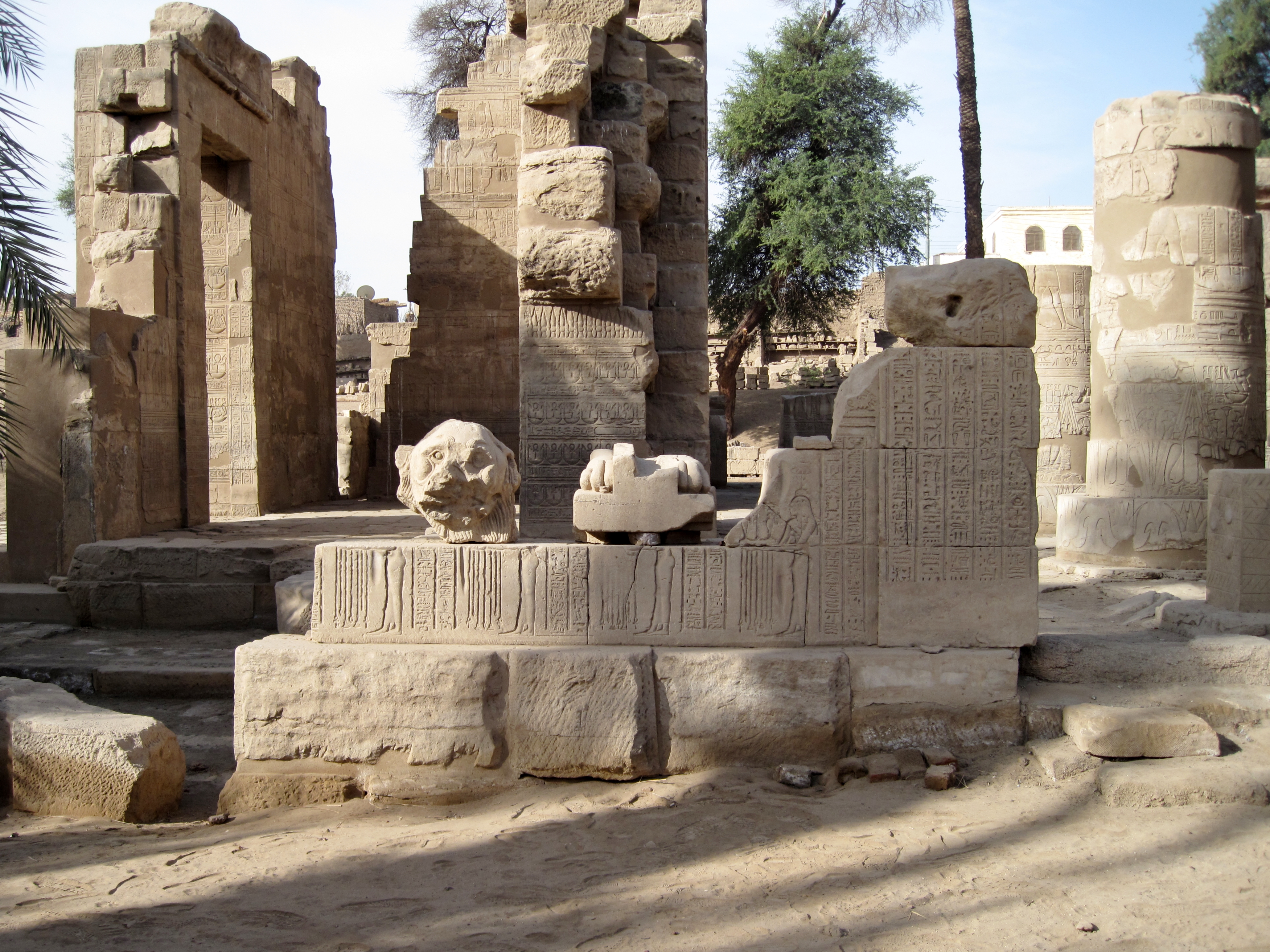 Northeastern side of the Ptolemaic pronaos of the Temple of Monthu in El-Tod, Egypt